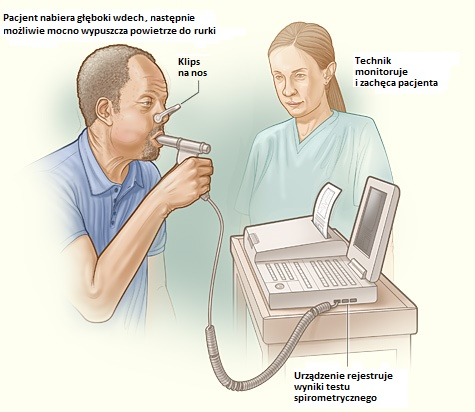 The image shows how spirometry is done. The patient takes a deep breath and blows as hard as possible into a tube connected to a spirometer. The spirometer measures the amount of air breathed out. It also measures how fast the air was blown out.